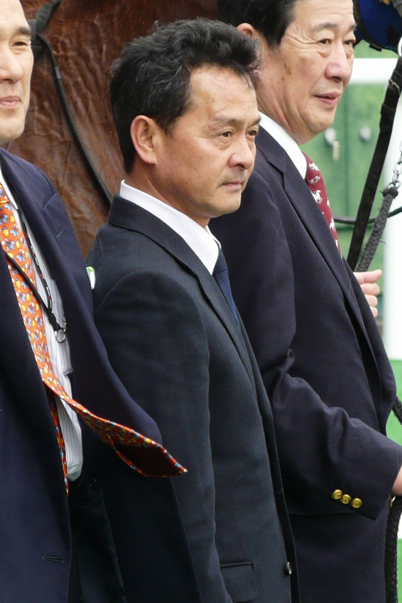 Eiji-Nakano20110423